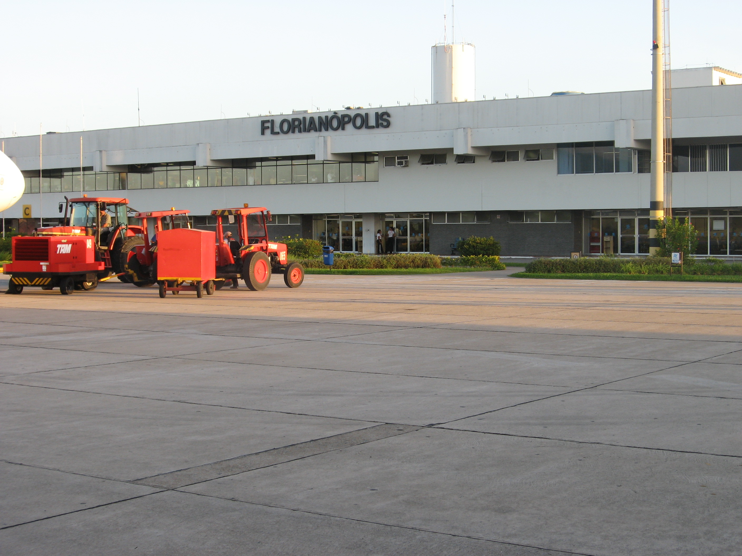 Hercílio Luz International Airport, Florianópolis, Brazil.